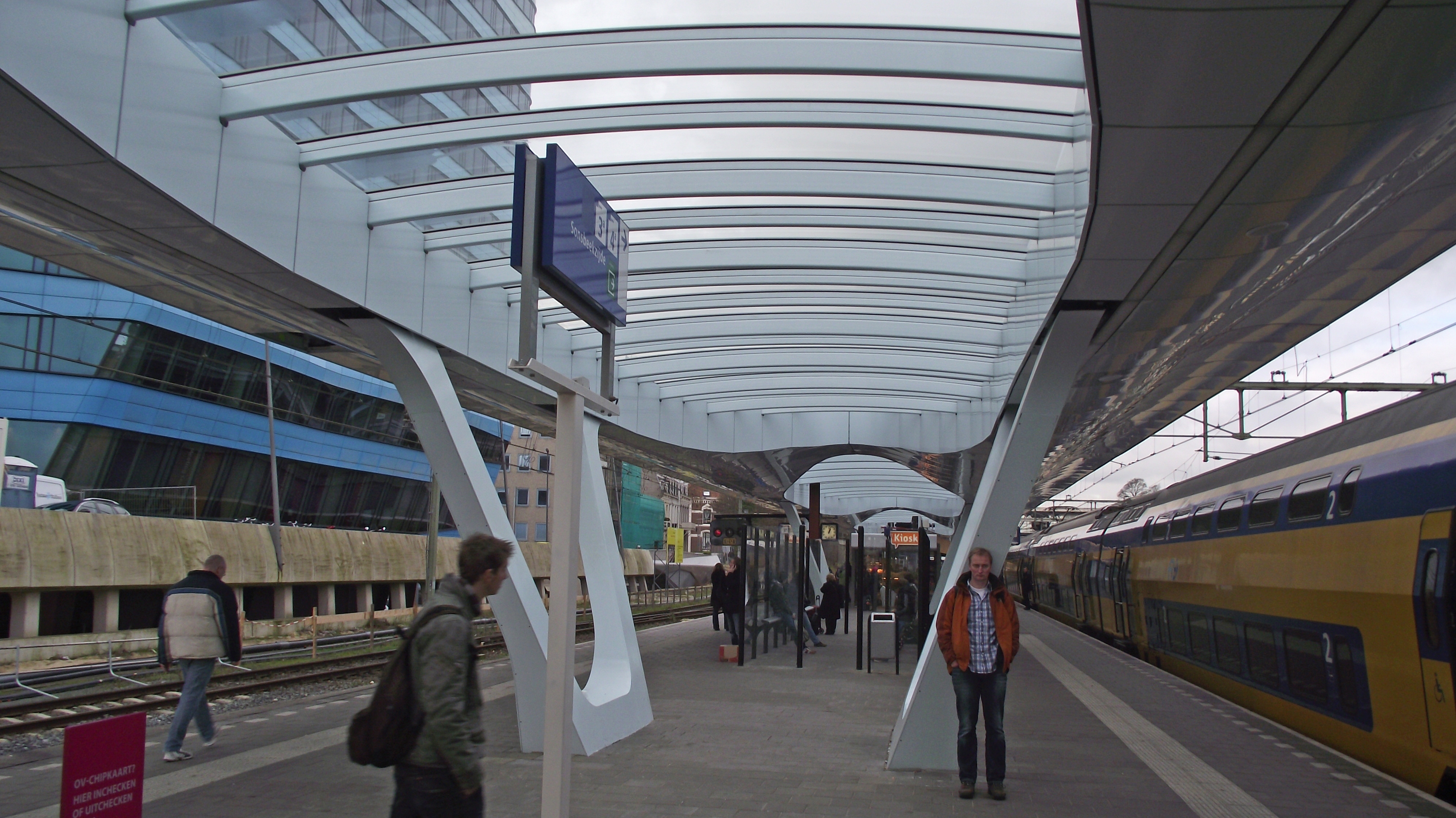 New platform covering in Arnhem train station.